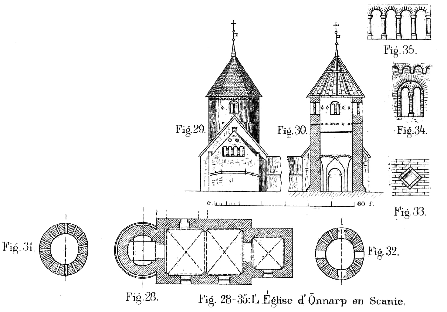 Önnarp church in Sweden in the mid 1800's. Drawing: Nils Månsson Mandelgren, published 1883.